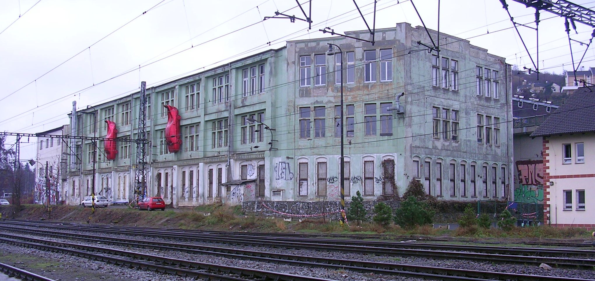 Prague, Smíchov, the Czech Republic. - Google Maps - Google Earth